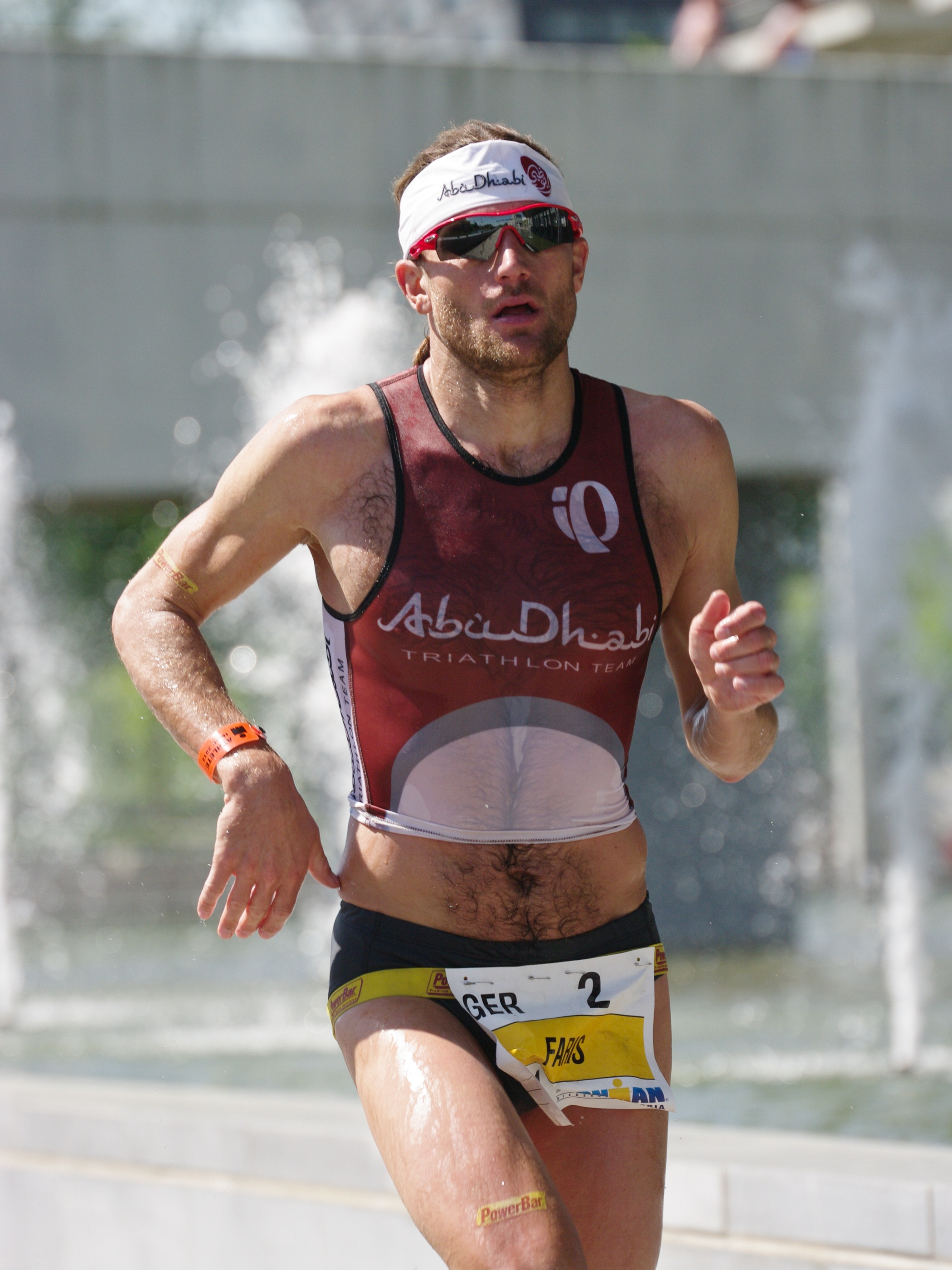 German triathlete Faris Al-Sultan in the Ironman 70.3 Austria on 20 May 2012 in St. Pölten.